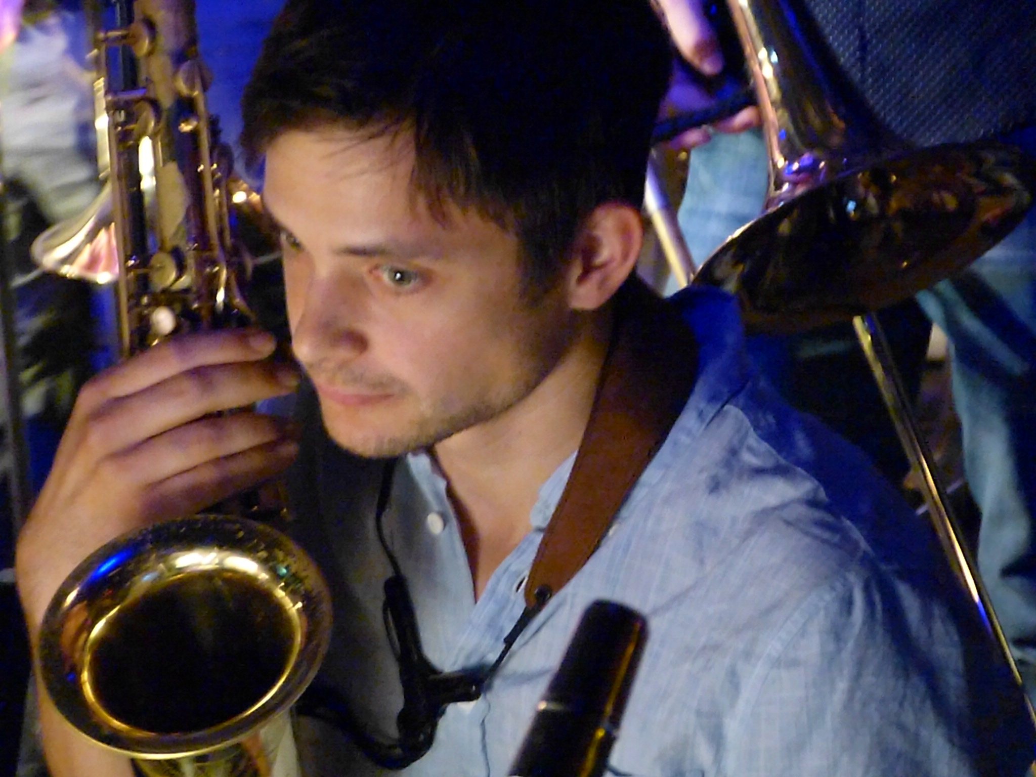 Jens Böckamp (s) in the concert "Big Company" of the Subway Jazz Orchestra feat. Florian Ross (arr,comp), September 12th, 2018 at Subway (Cologne), Germany, with Shannon Barnett and others